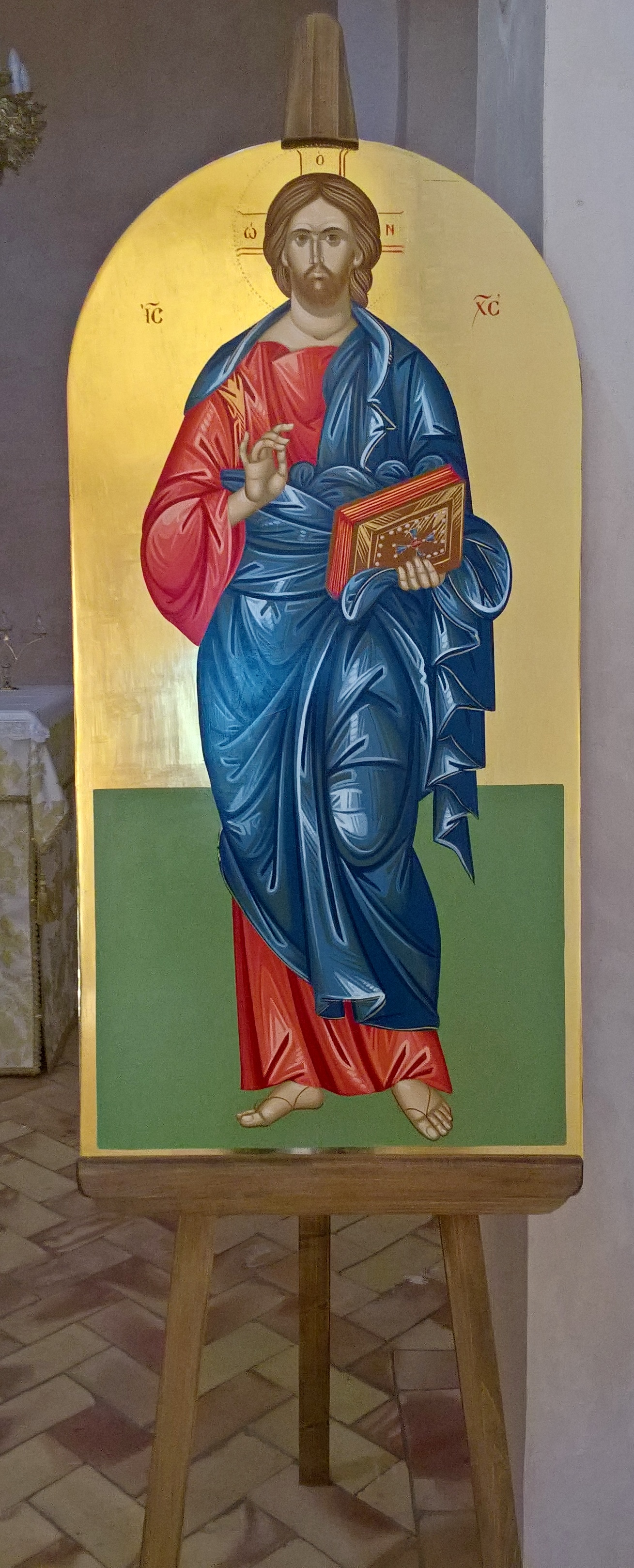 Byzantine icon; Christ Pantocrator